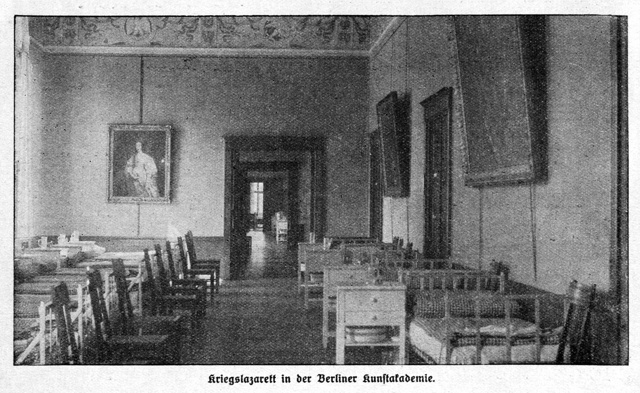 A room in the Berlin Academy of Arts (Kunstakademie) serves as a military hospital in WWI. Summer 1914.